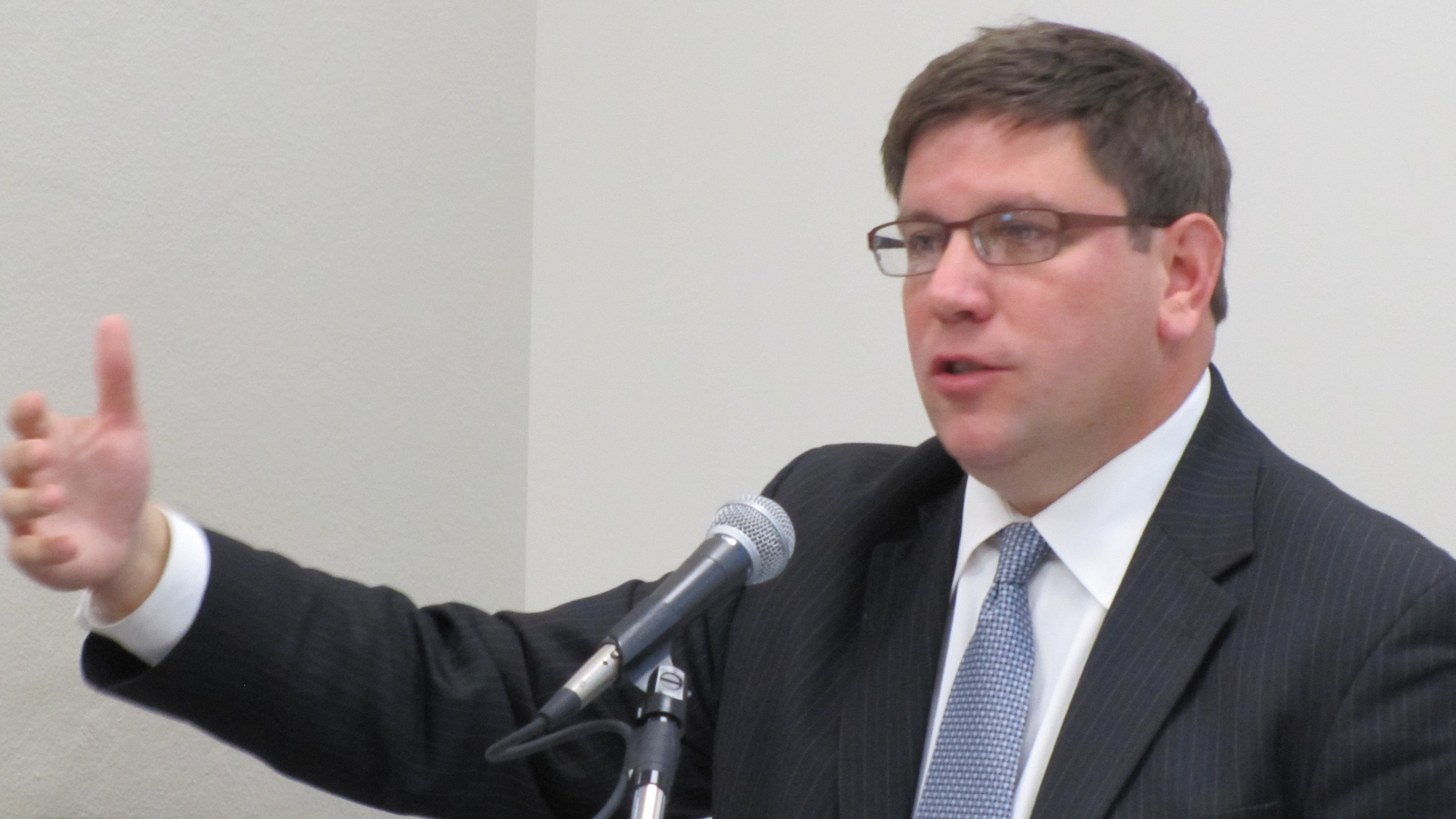 Cleveland City Councilman Joe Cimperman